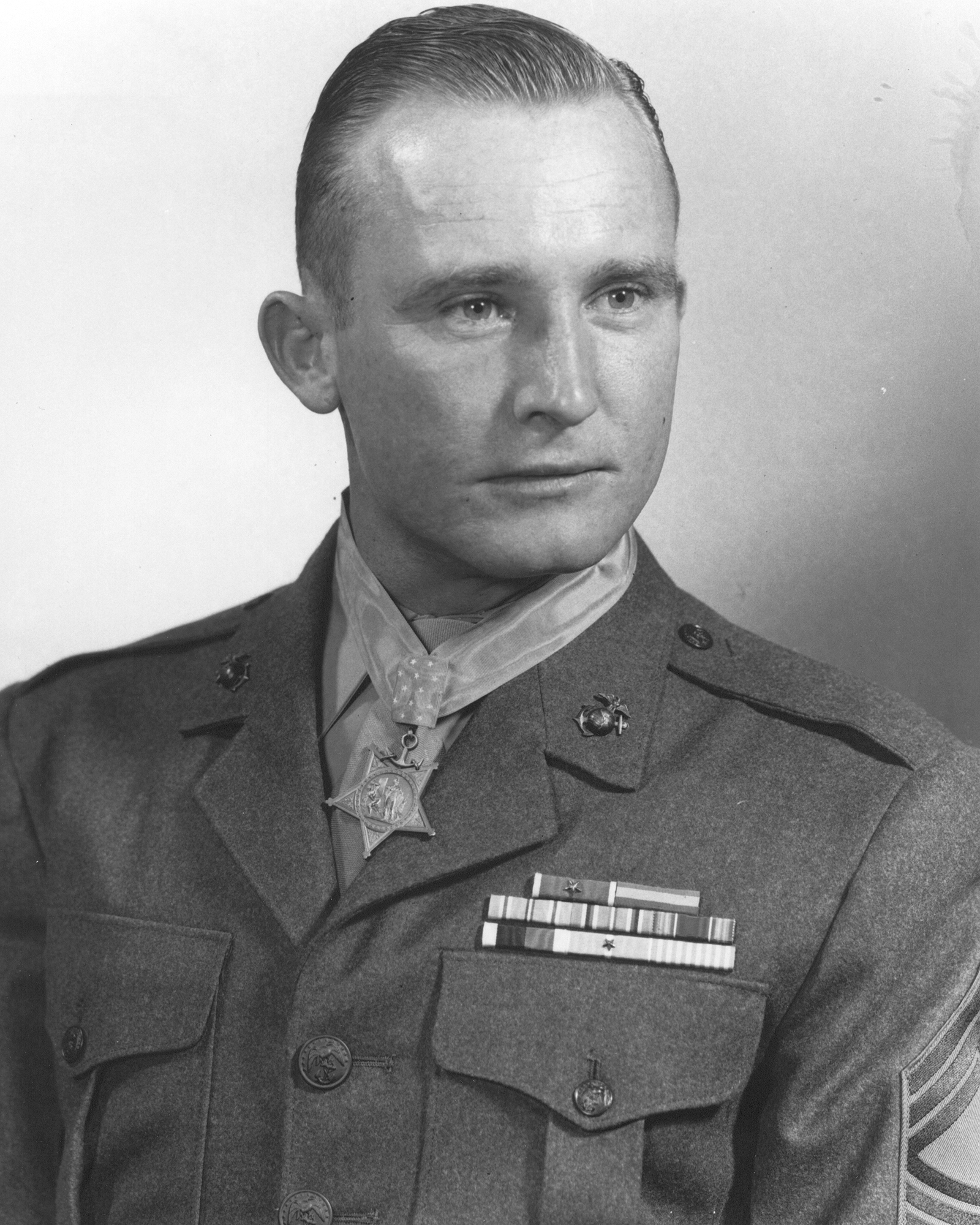 Harold E. Wilson, USMC, Medal of Honor recipient; high-res image from United States Marine Corps at